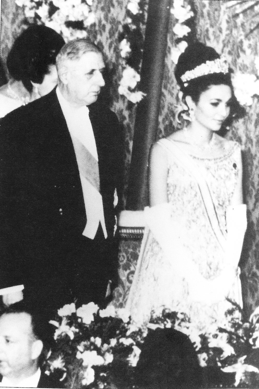 state visit France, Farah Pahlavi, Charles de Gaulle, 1961